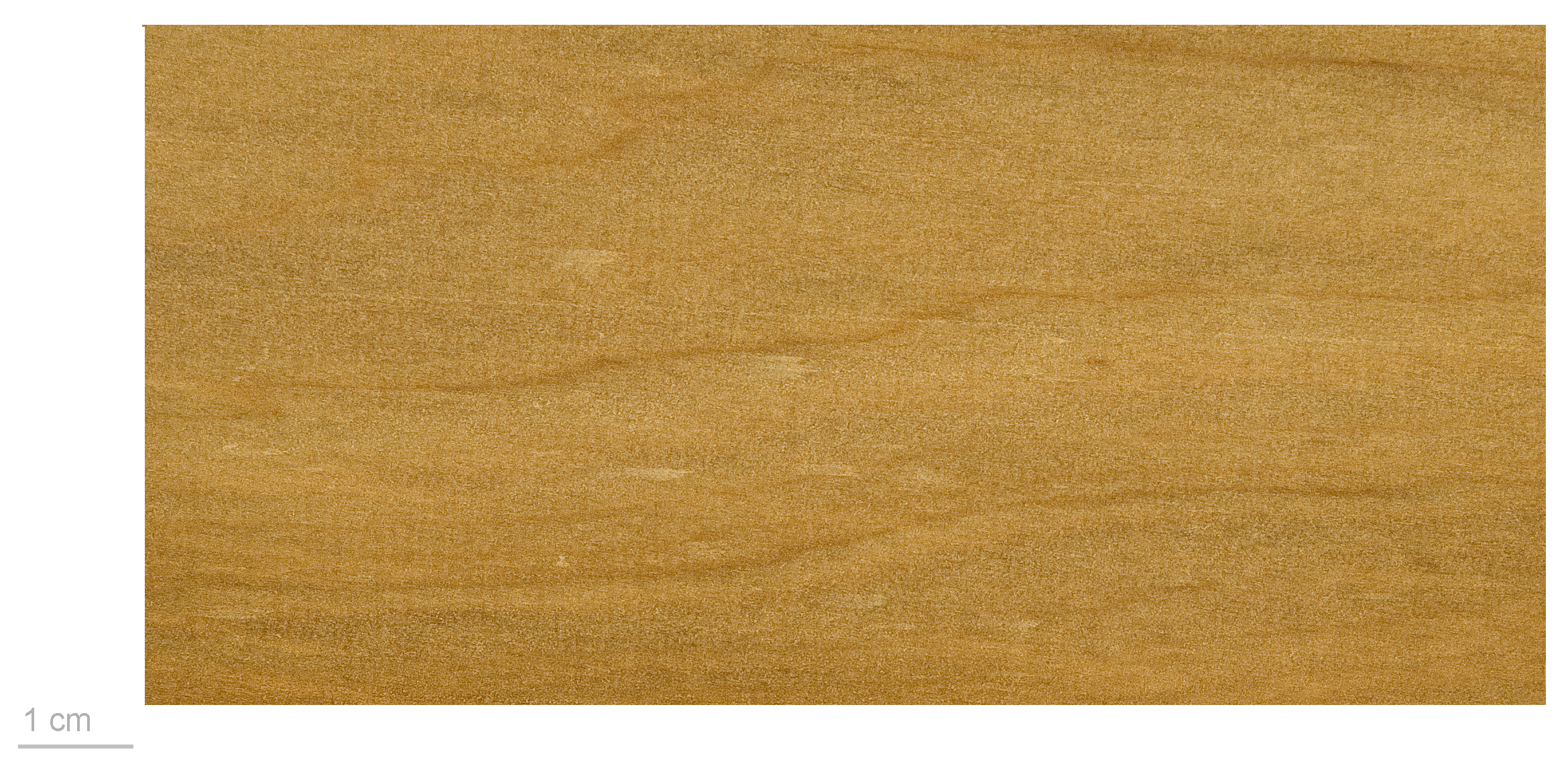 Agathis lanceolata, wood